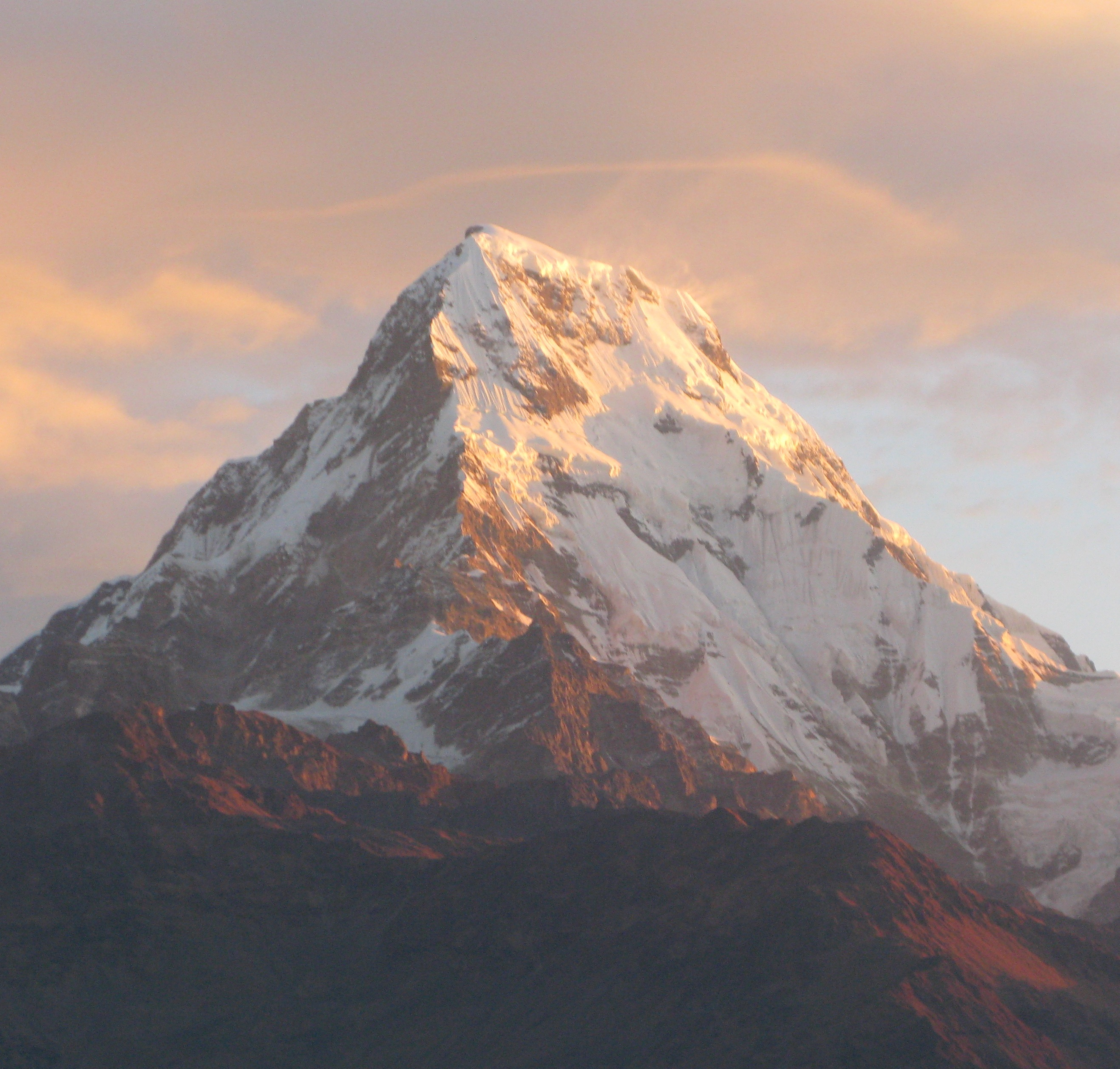 View of Annapurna South from the summit of Poon Hill